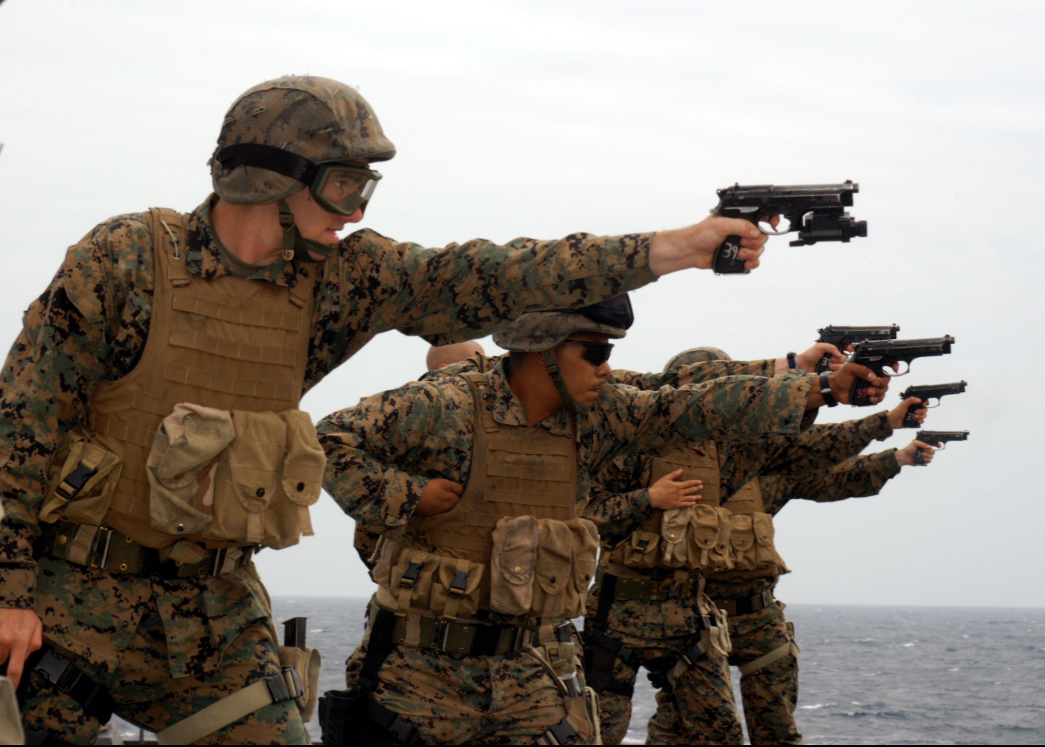 South China Sea (Mar. 26, 2005) – Marines assigned to 2nd Fleet Antiterrorism Security Team (FAST) Company, 3rd Platoon, fire their 9mm pistols at targets during a live fire small-arms familiarization exercise on the flight deck aboard USS Blue Ridge (LCC 19). In this portion of training, Marines could only use one arm to draw their weapon, shoot and reload, simulating a situation that might arise in combat. Blue Ridge, the Seventh Fleet command ship, is permanently forward deployed to Yokosuka, Japan. U.S. Navy photo by Journalist Seaman Apprentice Marc Rockwell-Pate (RELEASED)